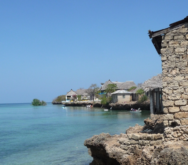 Wasini Island, Kwale, Kenya